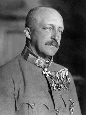 Field marshal Archduke Joseph August of Austria 1872-1962, son of Archduke Joseph Charles Louis, and grandson of Archduke Joseph Anton of Austria, Palatin of Hungary.